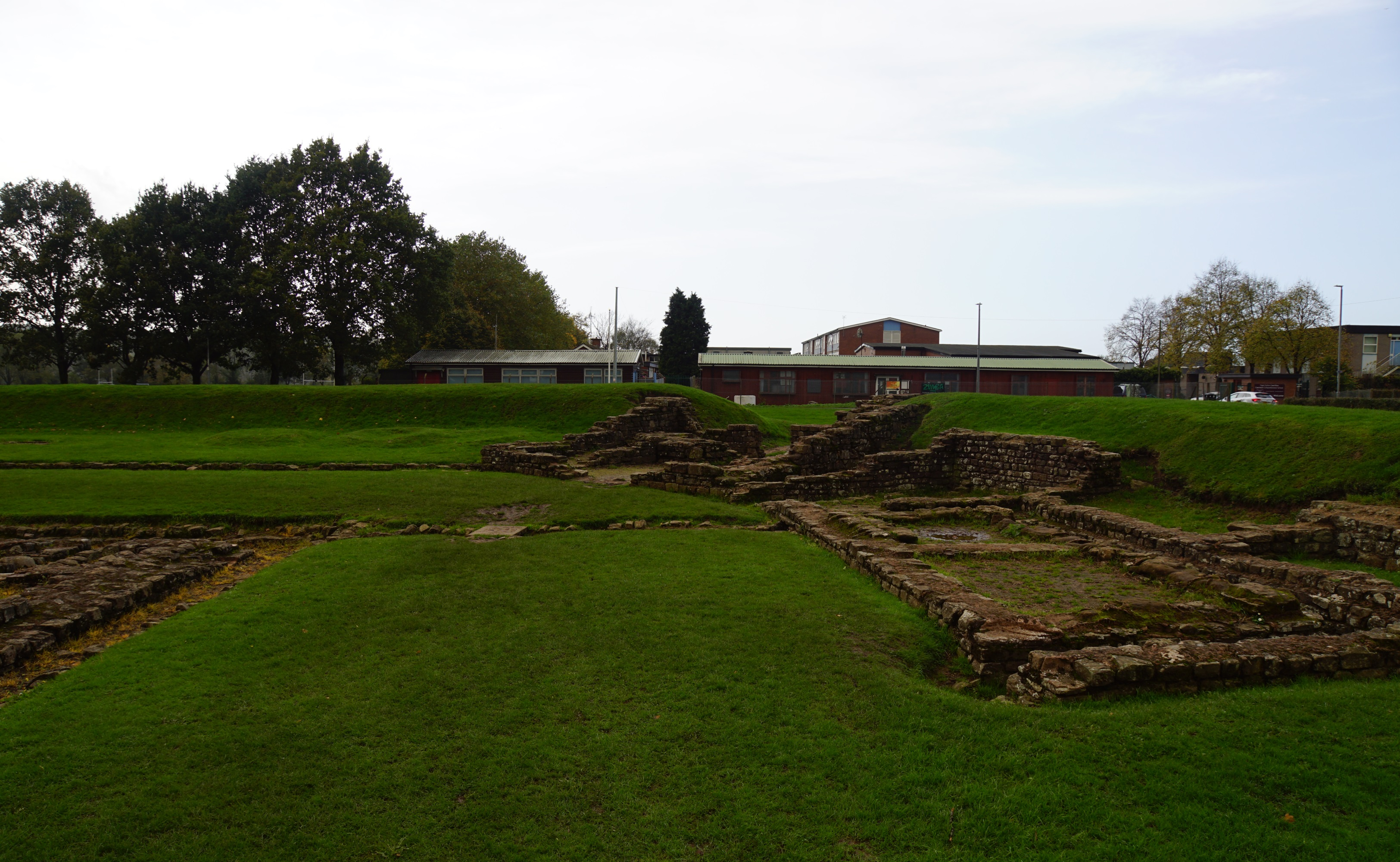 Roman Fortress Barracks, Caerleon, Wales, United Kingdom. Circular oven bases near the rampart, a tower en on the right a latrine.